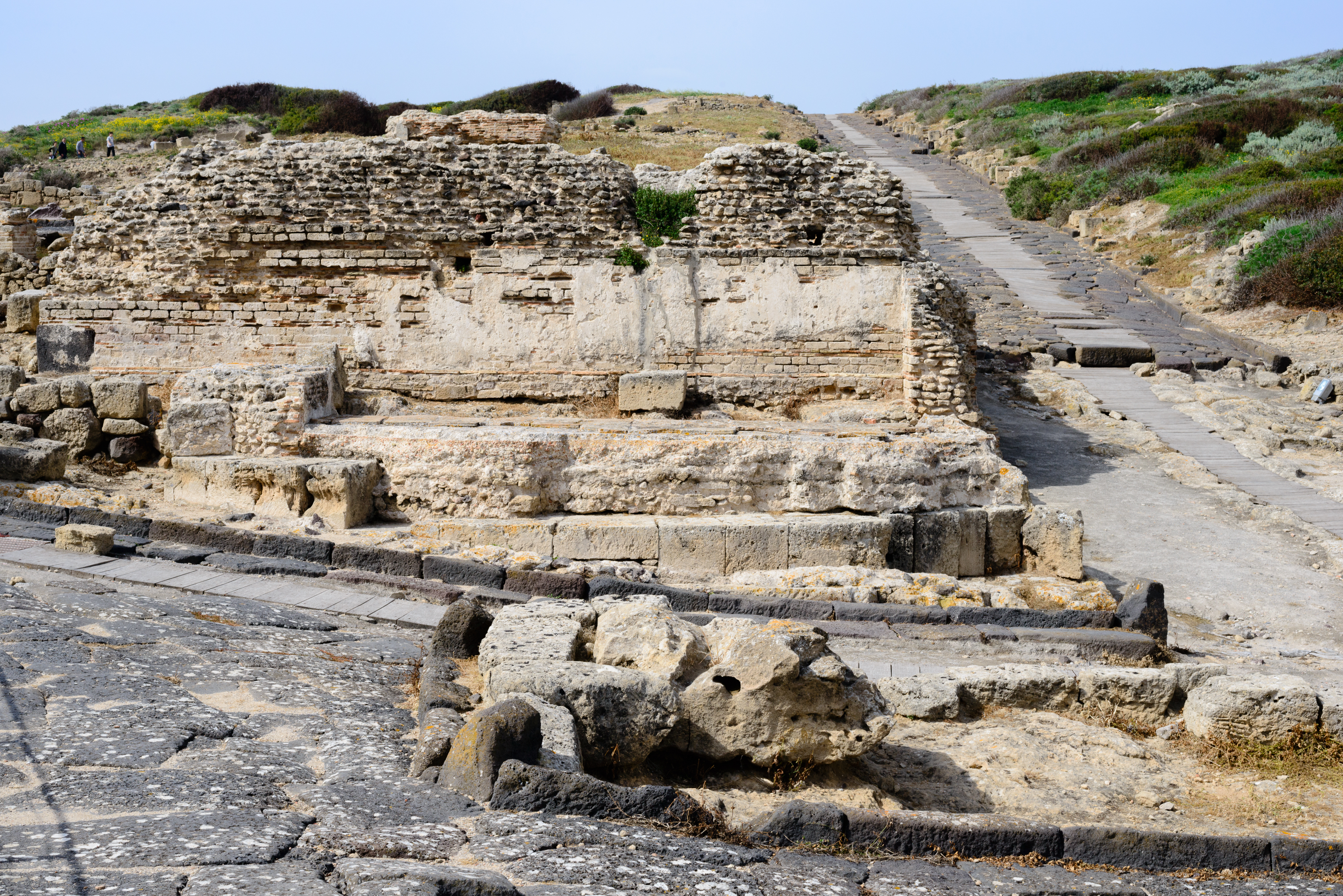 Tharros, ancient city ruins on the west coast, province of Oristano, Sardinia, Italy.